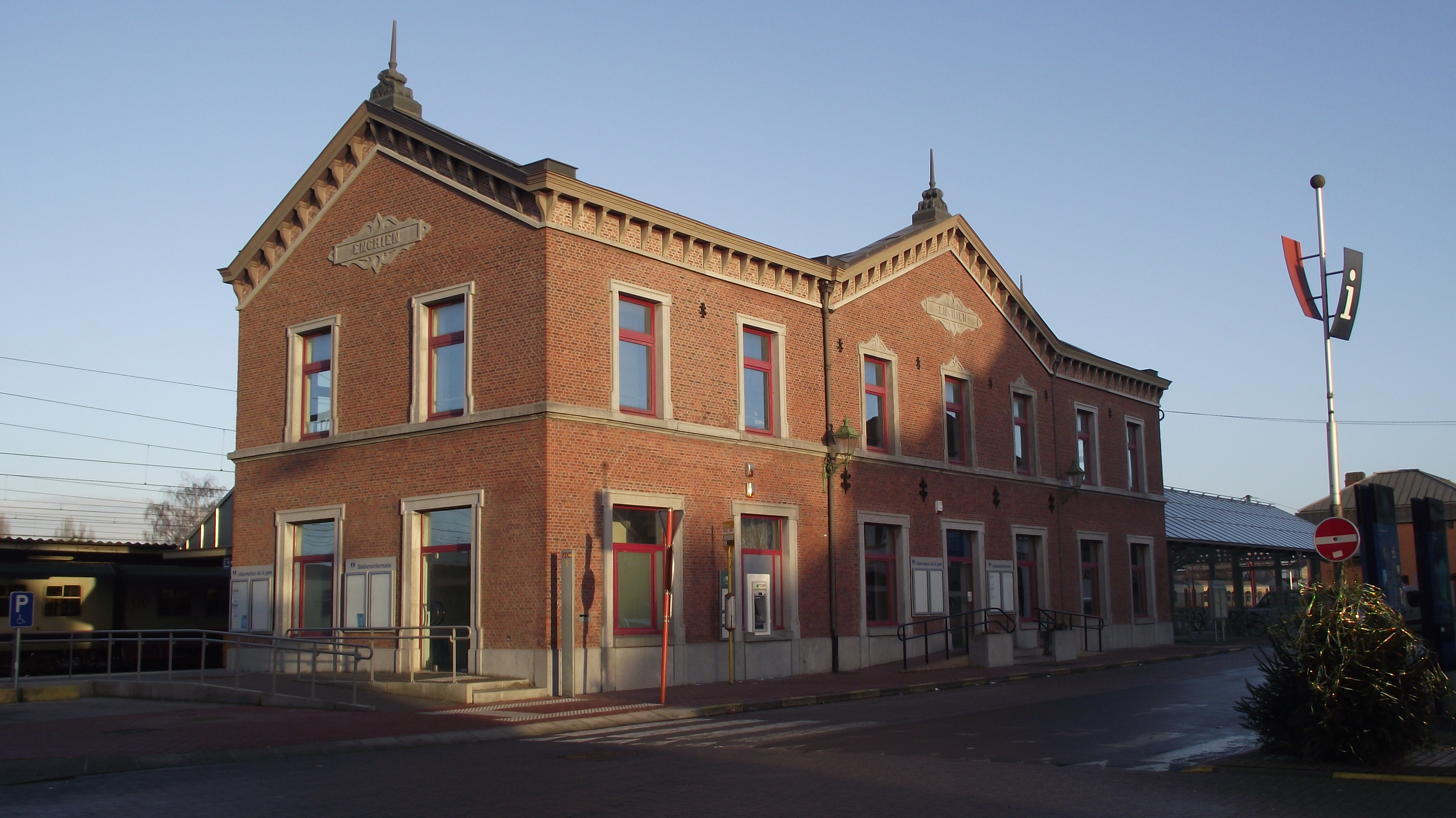 Train station building of Enghien